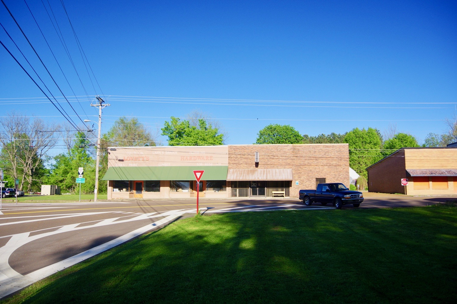 Old commercial block at the intersection of State Route 89 and State Route 21 in Hornbeak, Tennessee, United States.